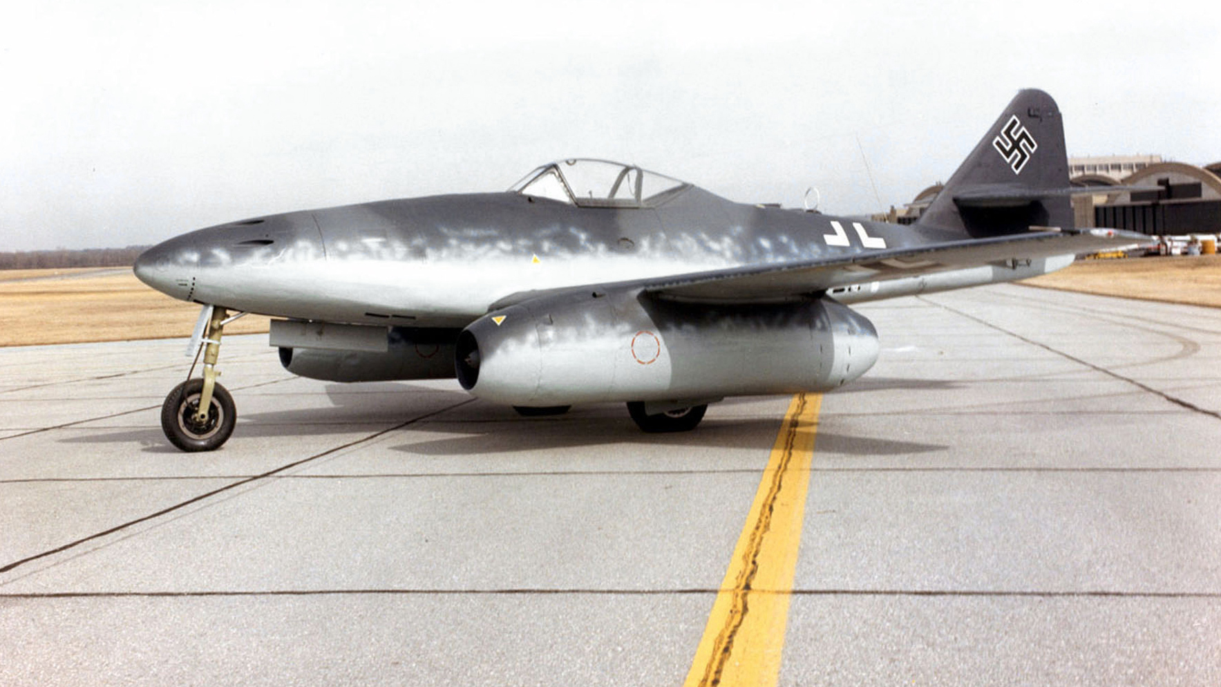 DAYTON, Ohio -- Messerschmitt Me 262A at the National Museum of the United States Air Force. (U.S. Air Force photo)